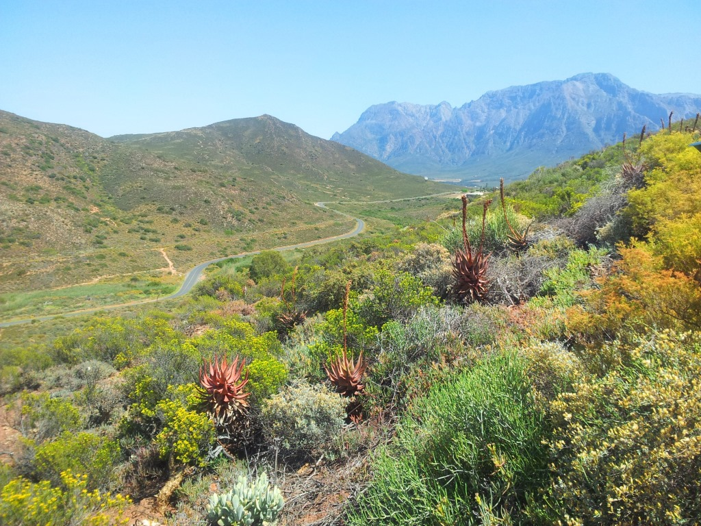 Typical Robertson Karoo vegetation - KDNBG